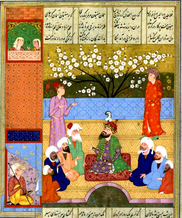 Nizami Ganjavi - Alexander the Great and the Seven Philosophers - Walters W610345AAzərbaycanca: Nizami Gəncəvi yeddi filosofun əhatəsində